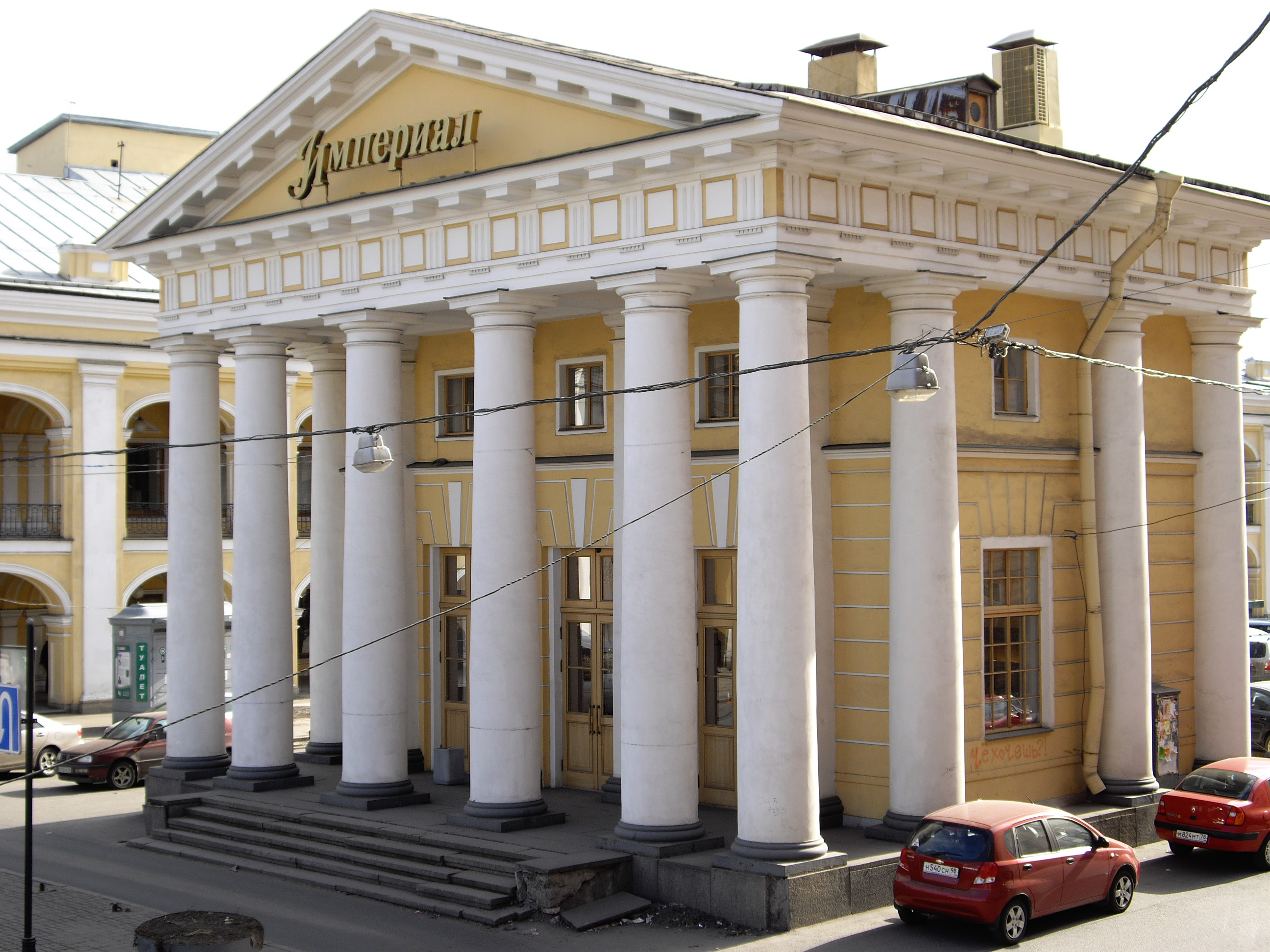 "Rusca portico", Nevsky Prospect 33-35, Saint-Petersburg, Russia (architect Luigi Rusca, 1805-1806).